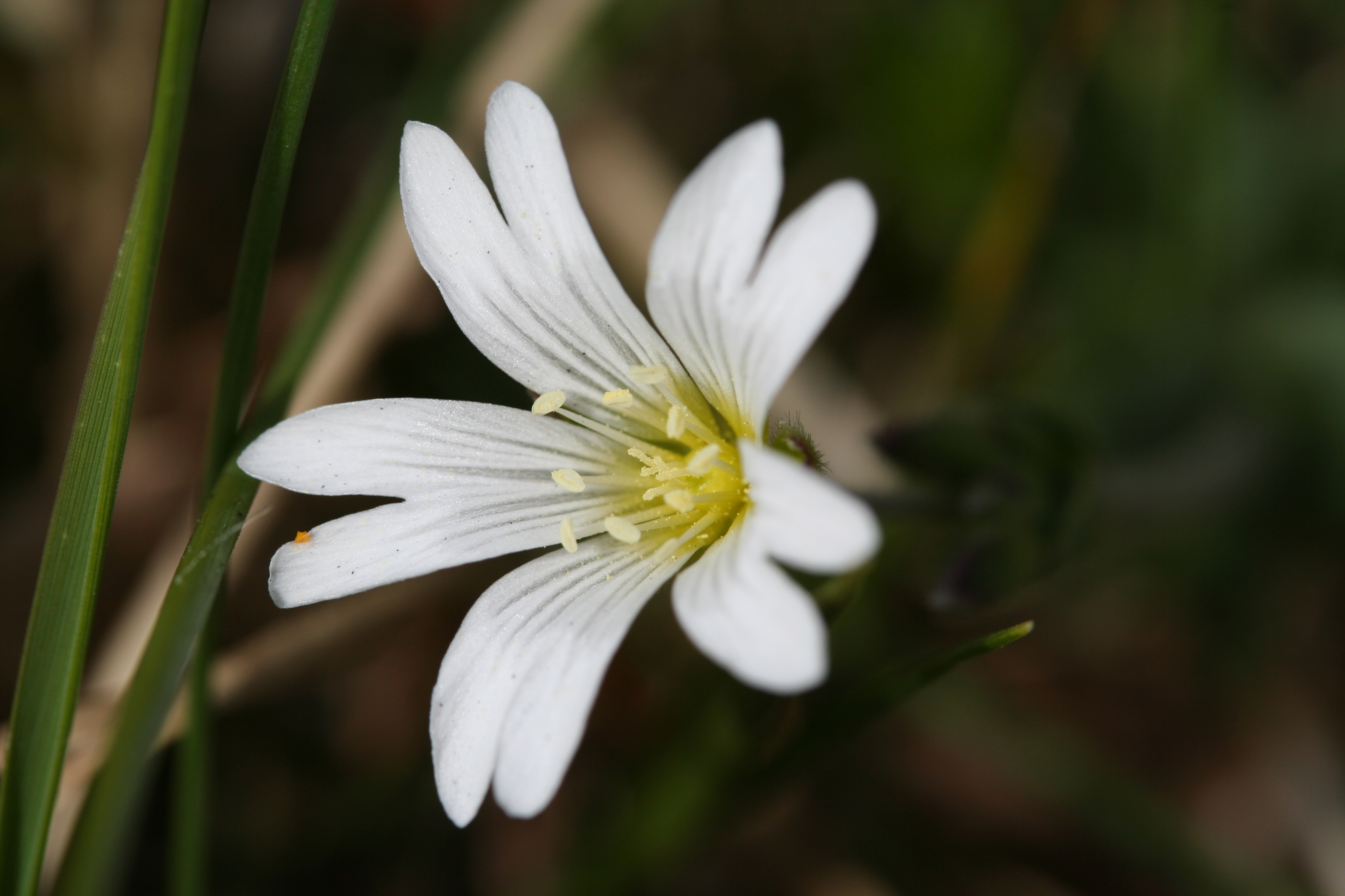 Cerastium arvense 29 april 2006 IJmuiden, the Netherlands